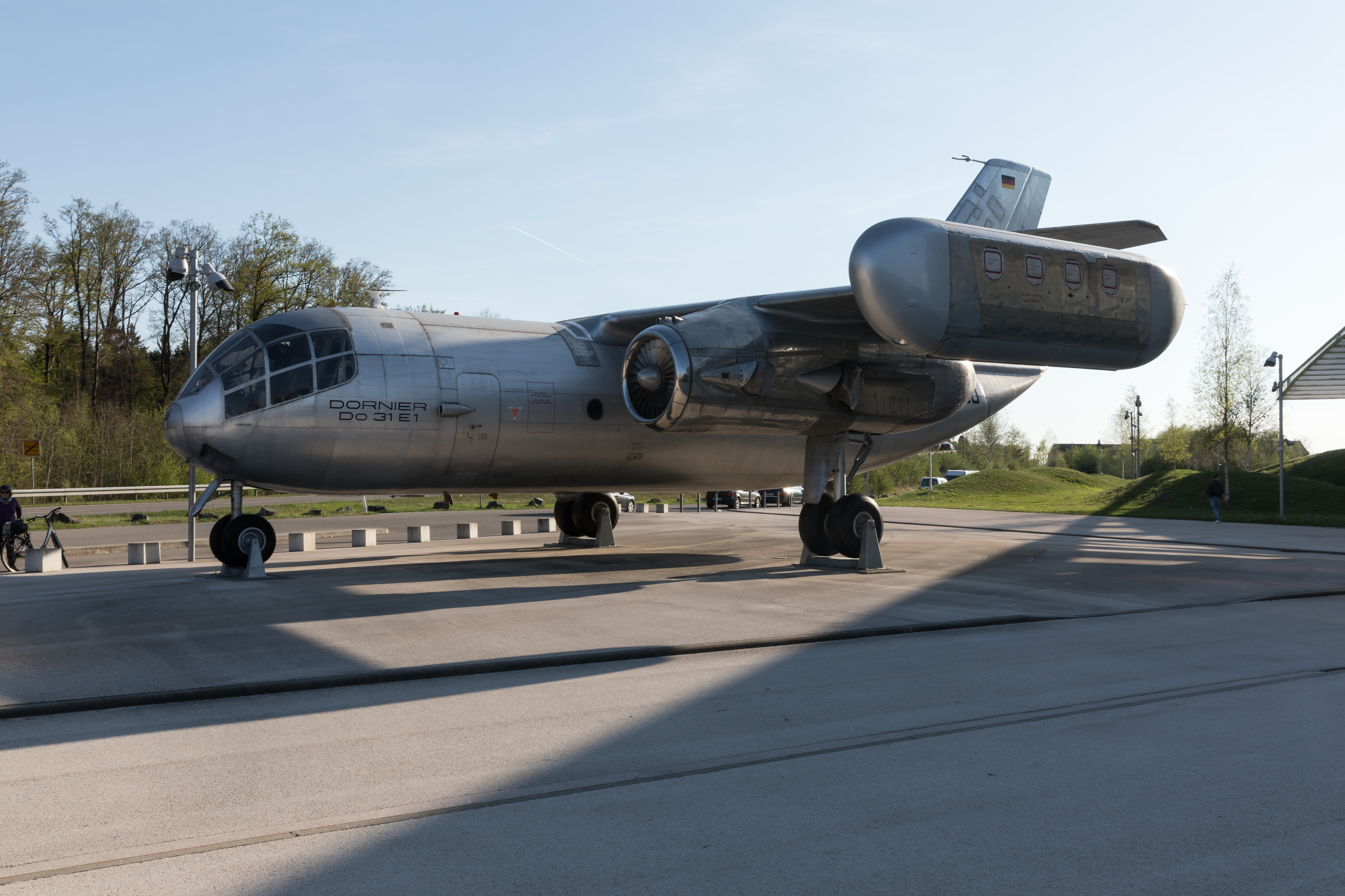 Dornier-Museum, Friedrichshafen